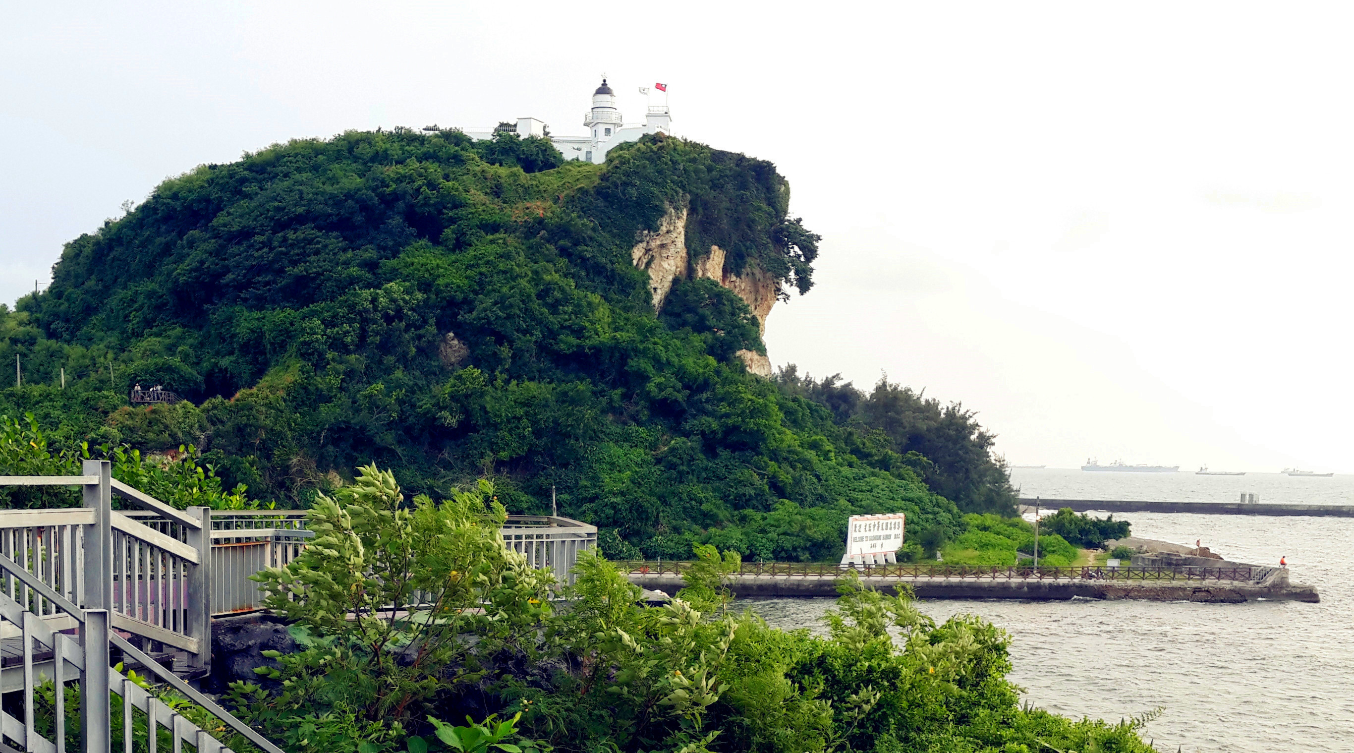 From the official residence of the Consulate of the United Kingdom, Qihoushan rises diagonally from the sea level. The shape of the mountain resembles that of a warship. It is like a stance that it is about to sail into the Taiwan Strait. As Qihoushan is the commanding heights in Qijin District, you can have a panoramic view of Kaohsiung Harbor and appreciate the views of the Taiwan Strait. The meandering coastal topography also follows the time of handing, giving birth to a unique natural ecology.